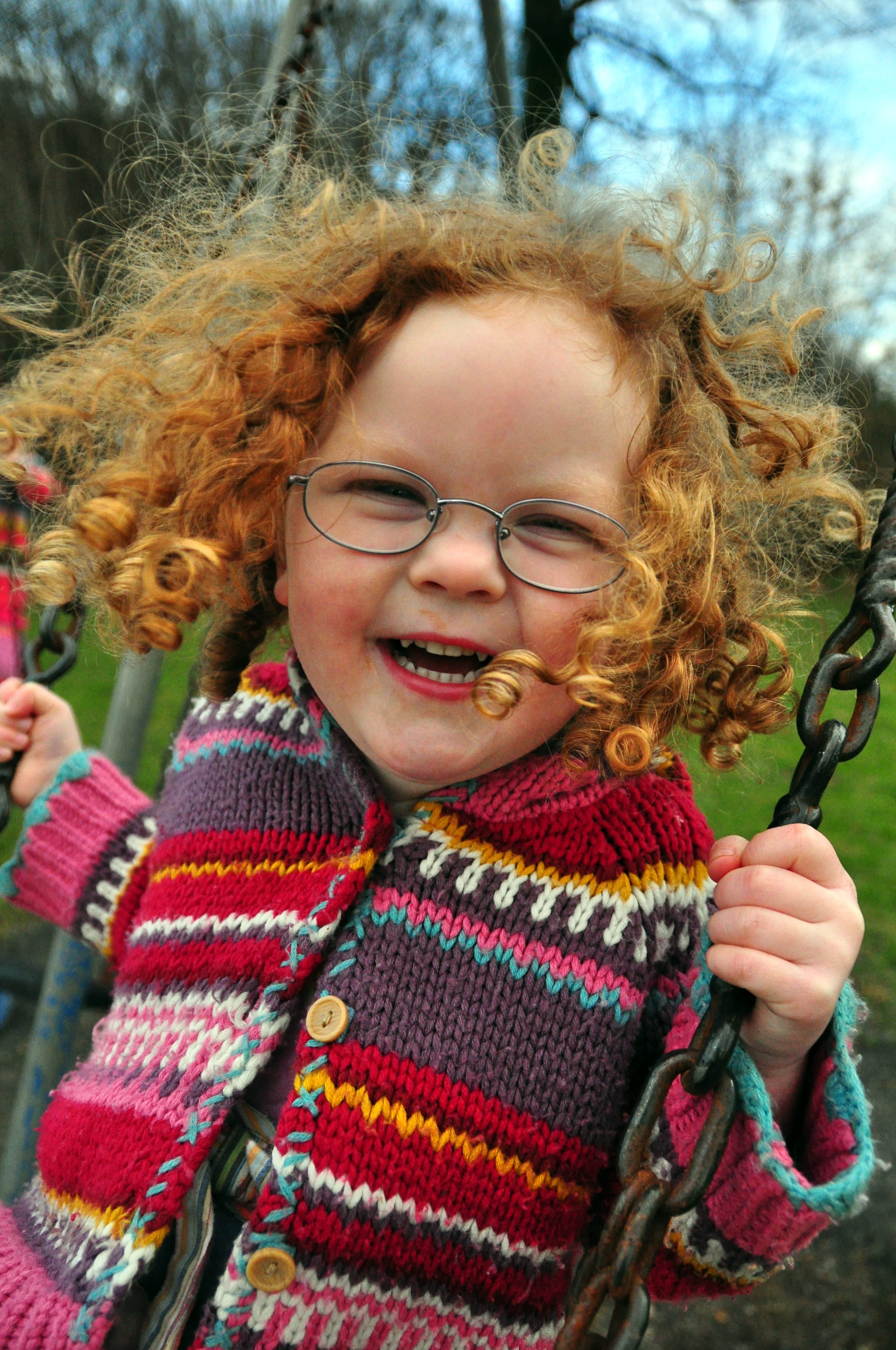 My niece enjoying the swings!